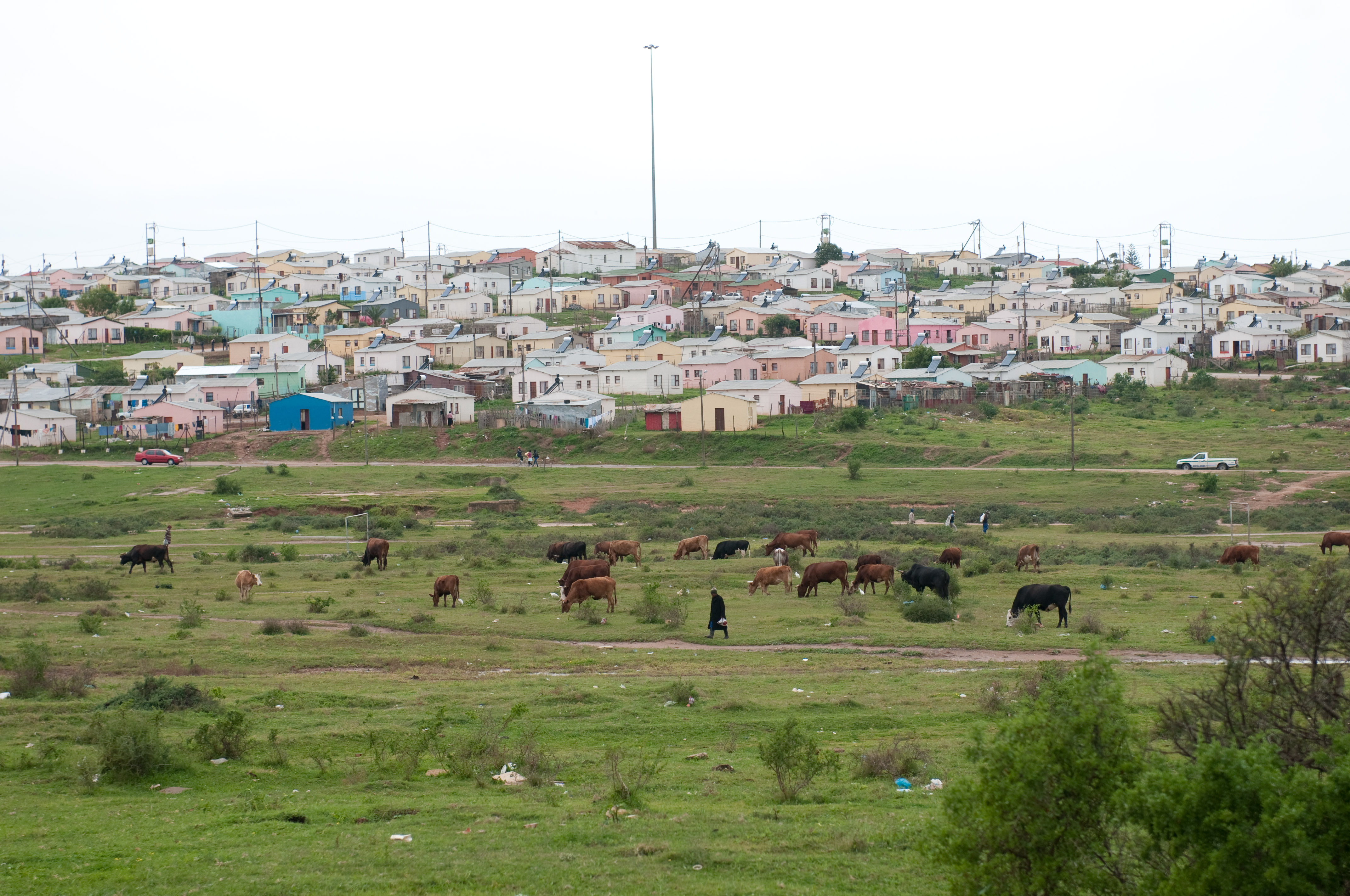 The Shantytown outside of the Allenridge Commuity Center